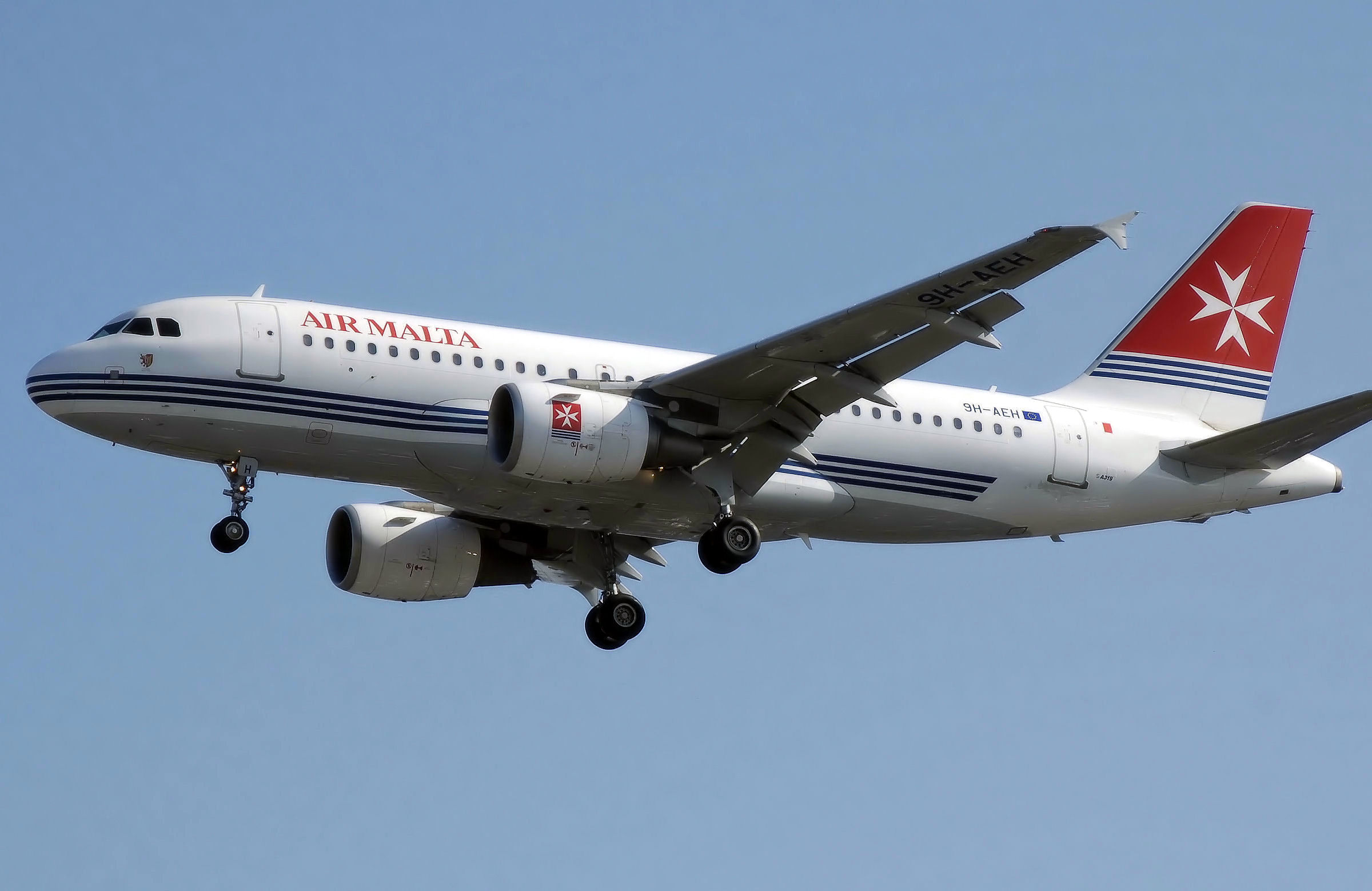 Air Malta Airbus A319-100 (9H-AEH) landing at London Heathrow Airport.